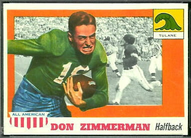 Don Zimmerman Topps football card A search was done at under the name of the company who produced the cards, Topps. While I found more recent original copyright applications for sports cards, I found no renewals for any cards done by Topps. Based on this, there's no evidence that Topps continues to claim on the material. Image of Don Zimmerman Topps football card.